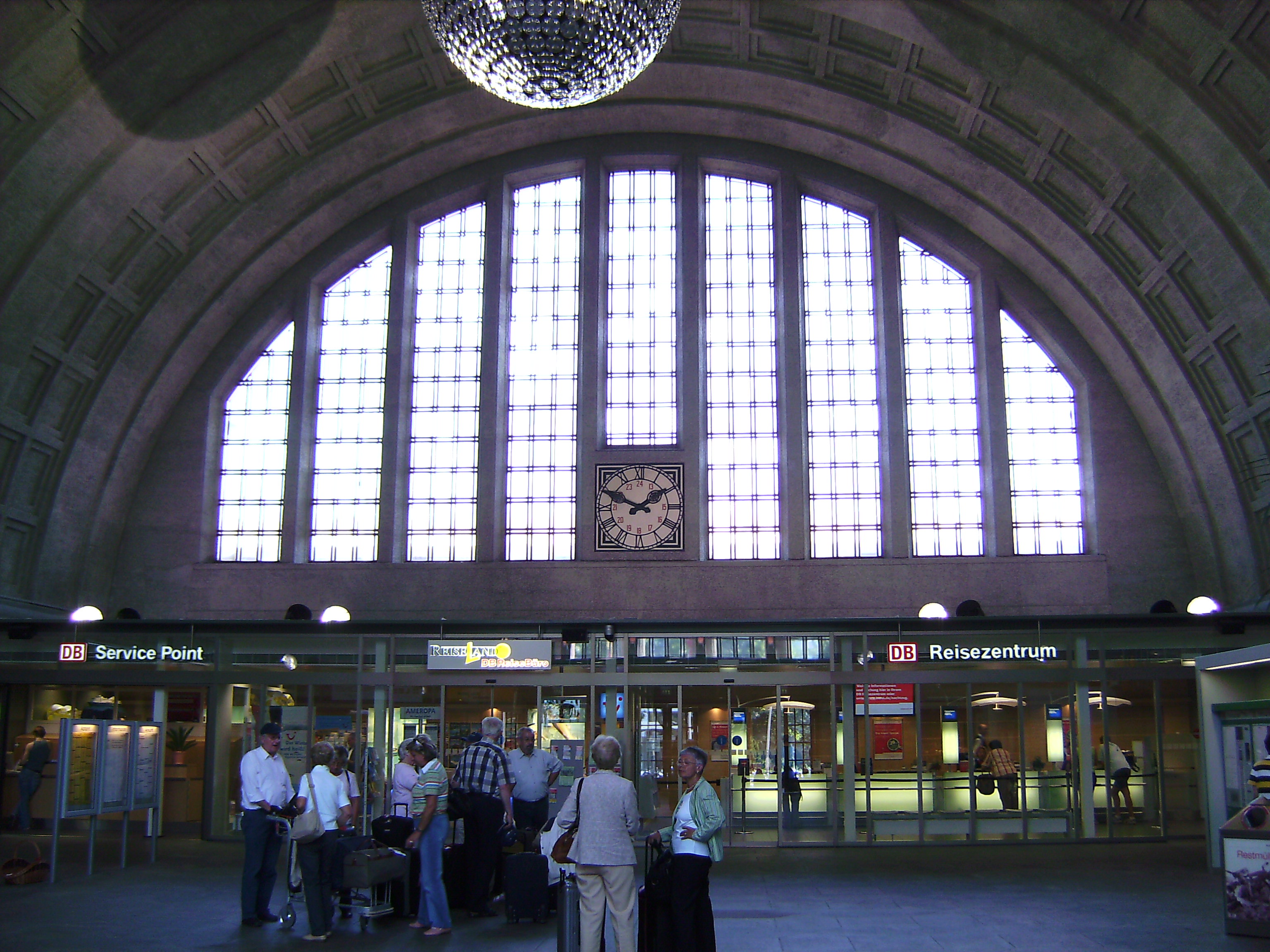 Main hall of the Basel Badischer Bahnhof in Basel, Switzerland.